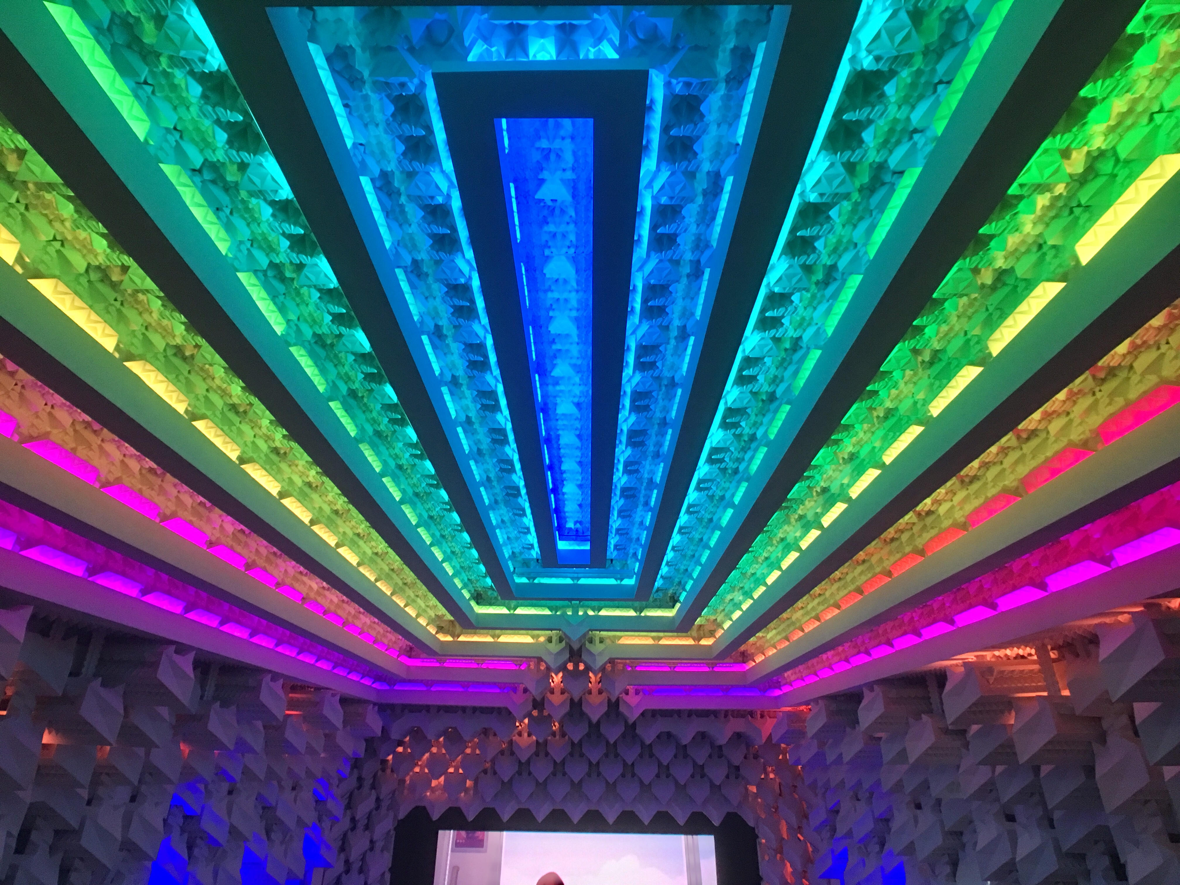 The Capitol theatre Melbourne on the opening night following restoration on 3rd June 2019.